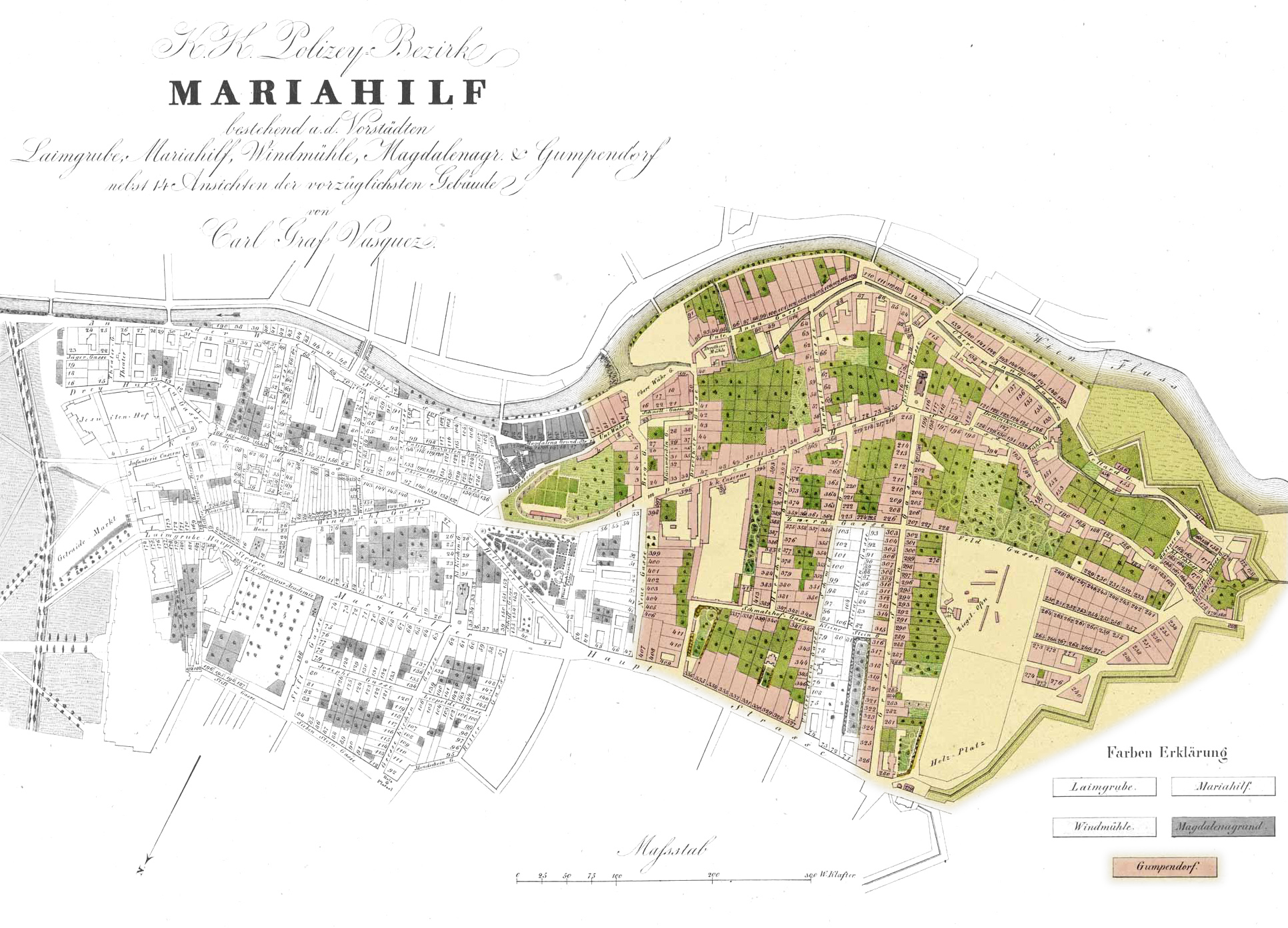 Map of Vienna / Gumpendorf, approx. 1830